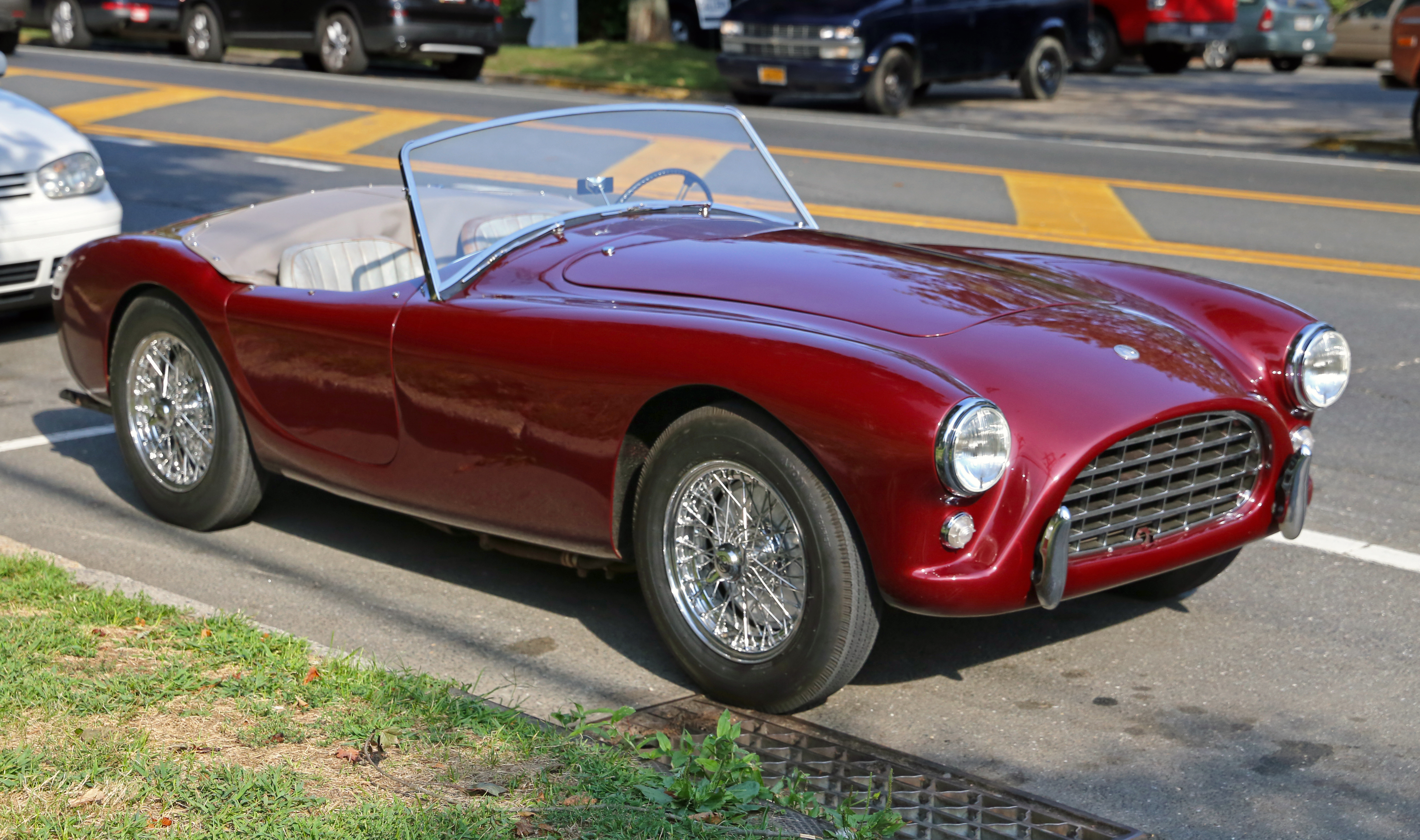 A 1958 AC Ace roadster seen in Amagansett, NY. Rouge Iris metallic bodywork with gray leather interior and carpeting, a four-speed manual and 28,000 miles. Presented in 1953 this Ace was finished on June 21, 1958 in this very configuration. It is powered by a 1991cc OHV straight-six with triple SU carburettors, and 105hp at 4500rpm. Good shape, recently ran the Colorado Grand without problem, never restored (just repainted) and had one owner for nearly 30 years. It is an AC-engined car with the original engine and factory LHD, sold new to New Hampshire by the then East Coast AC importer, Hap Dressel's AC Imports Inc. in Arlington, VA. Only 220 AC-engined Aces were produced as opposed to 463 Bristol-engined cars. Parked in Amagansett in an attempt to lure a deep-pocketed buyer; sadly all they got was me and my camera as the car is still listed for sale.